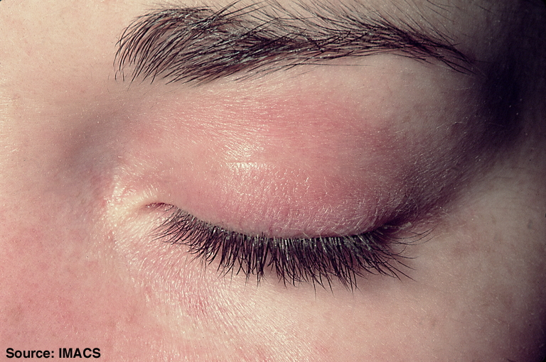 Dermatomyositis, Heliotrope. Confluent macular erythema confined to the upper eyelid, with associated periorbital edema. A hallmark (i.e., pathognomonic) sign of dermatomyositis, consisting of violaceous to erythematous discrete or confluent macules confined to the upper eyelids. An eruption with similar characteristics can extend periorbitally. Heliotrope is often associated with periorbital edema and telangiectasias of the upper eyelids. In the resolution stage, atrophy or dyspigmentation (hypo- or hyperpigmentation) may be apparent.